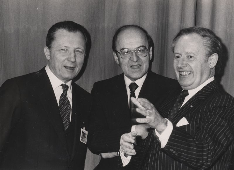 Jacques Delors, Kurt Furgler, Gaston Thorn Copyright World Economic Forum (